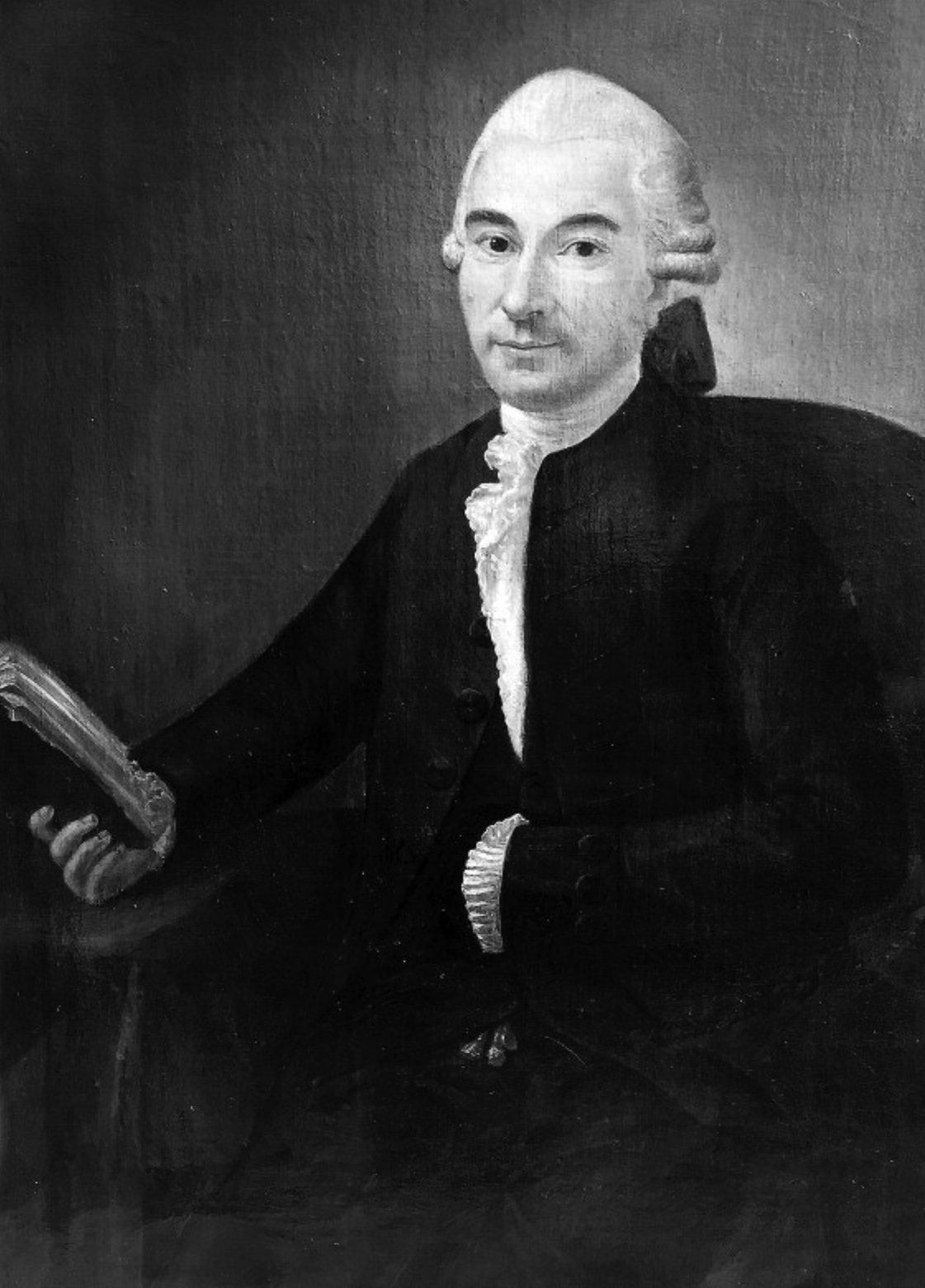 Portrait of Michel Dieulafoy, librettist of Spontini's opera Olimpie